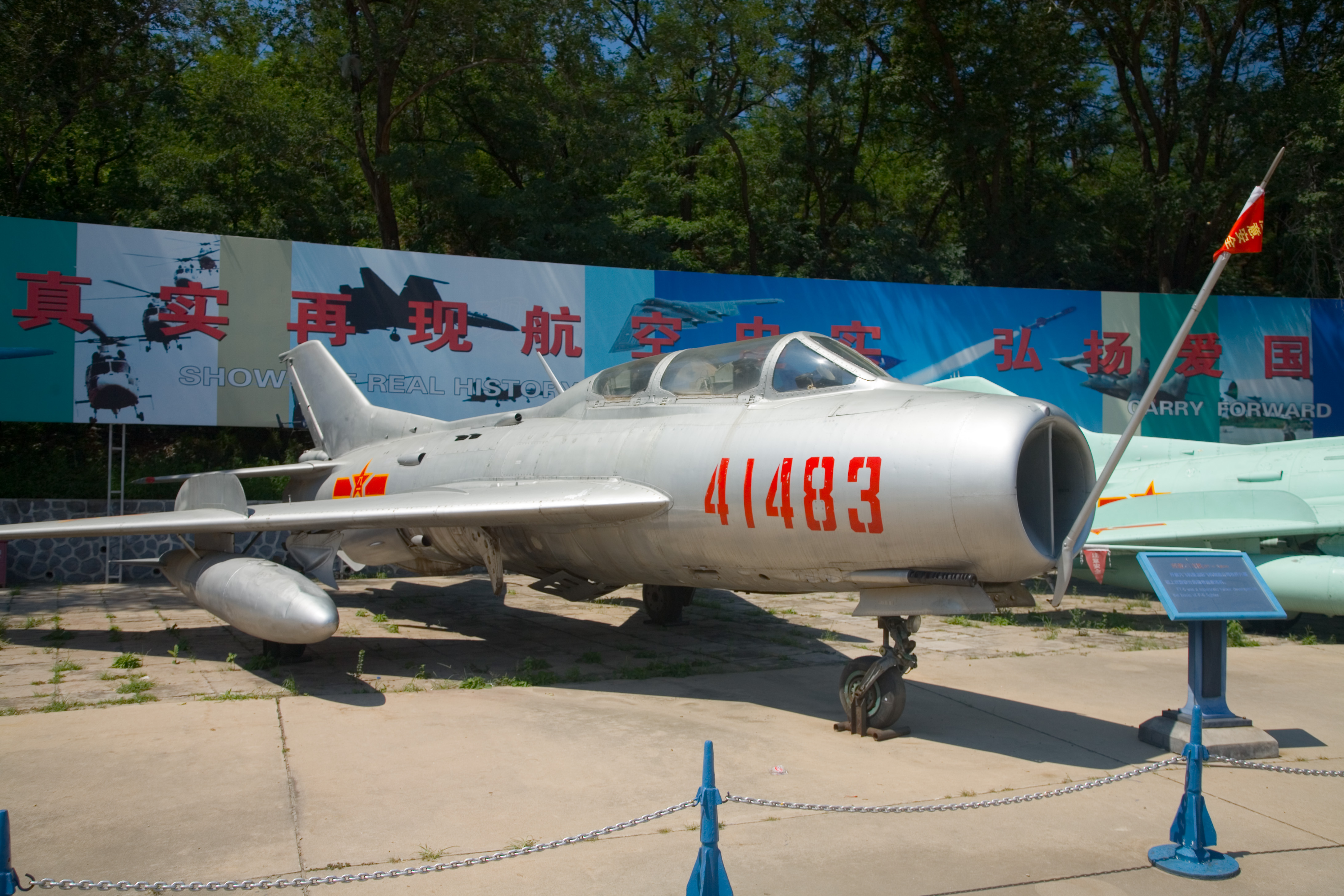 FT-6 trainer at the China Aviation Museum